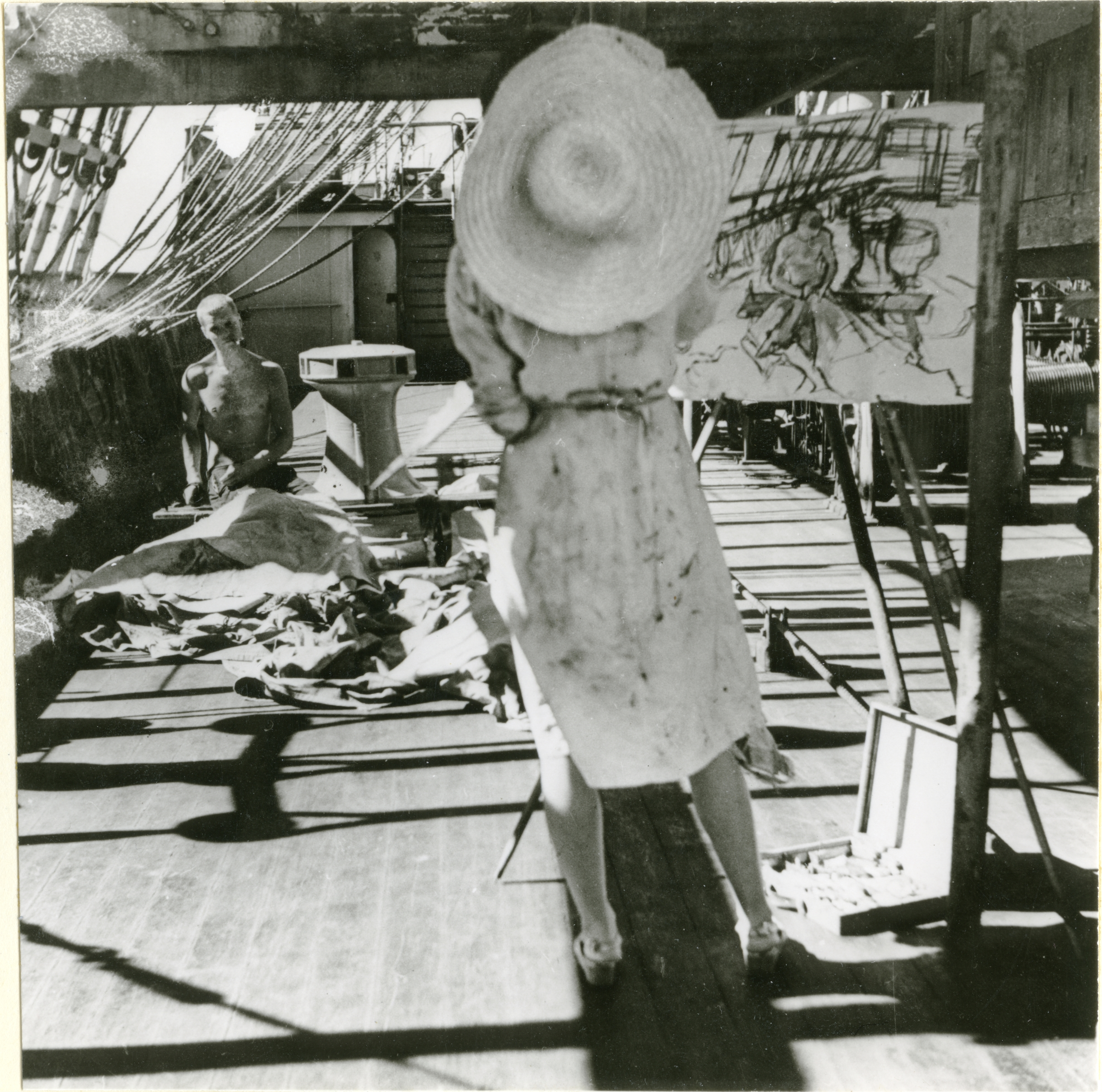 The artist Hilde Lütken-Bengtsson on the ship Passat in 1947 on its way Carlshamn - Cape Town.